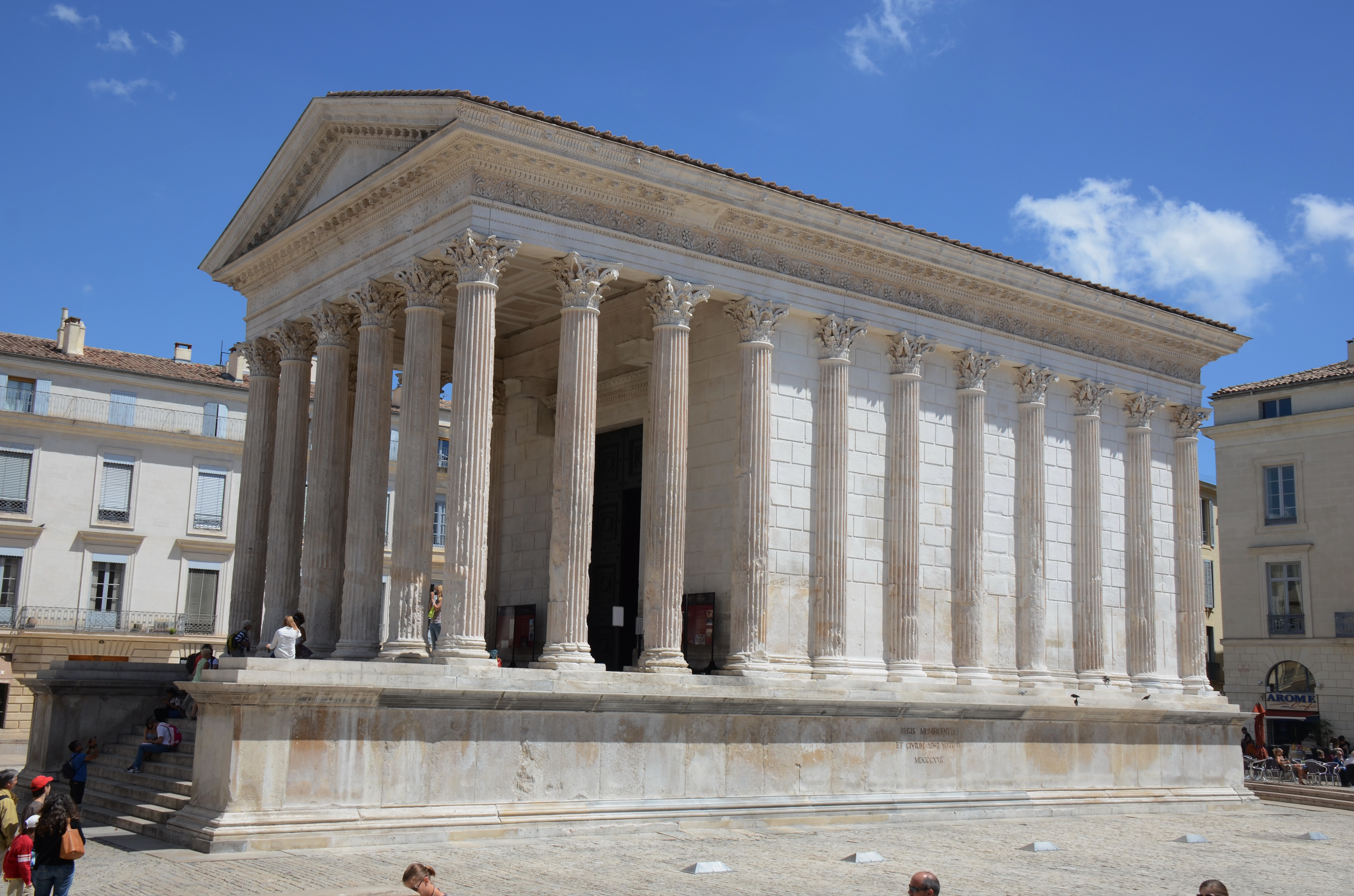 Maison Carrée (the square temple) dedicated at Julius Caesar, restaurated in 2010, Nimes